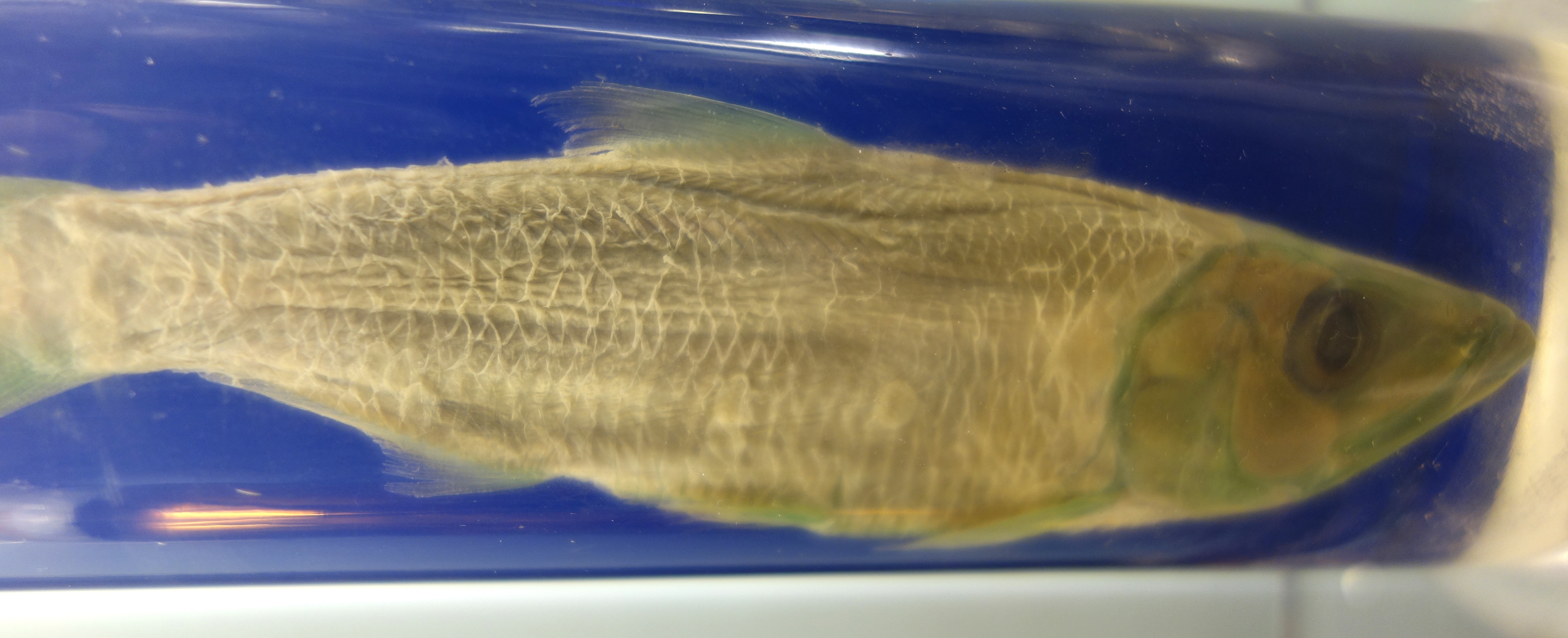 Exhibit in the Royal Museum for Central Africa, Tervuren, Belgium.